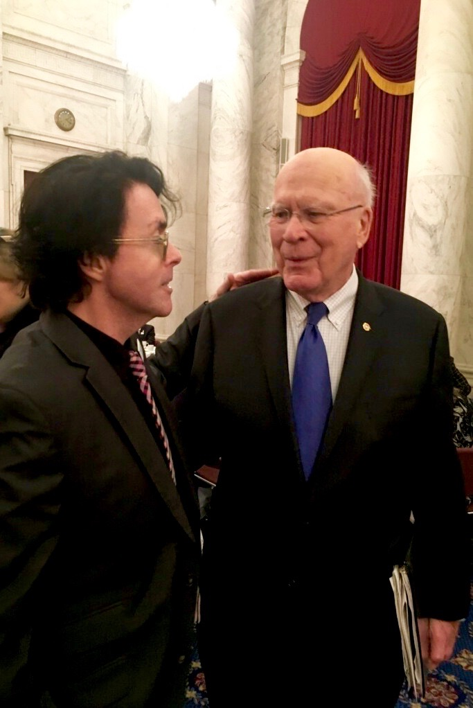 Richard Barone advocating for the Music Modernization Act (MMA) to Senator Patrick Leahy, in Washington D.C.